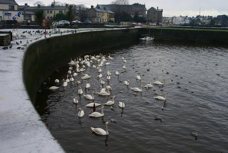 Swans in the Claddagh.